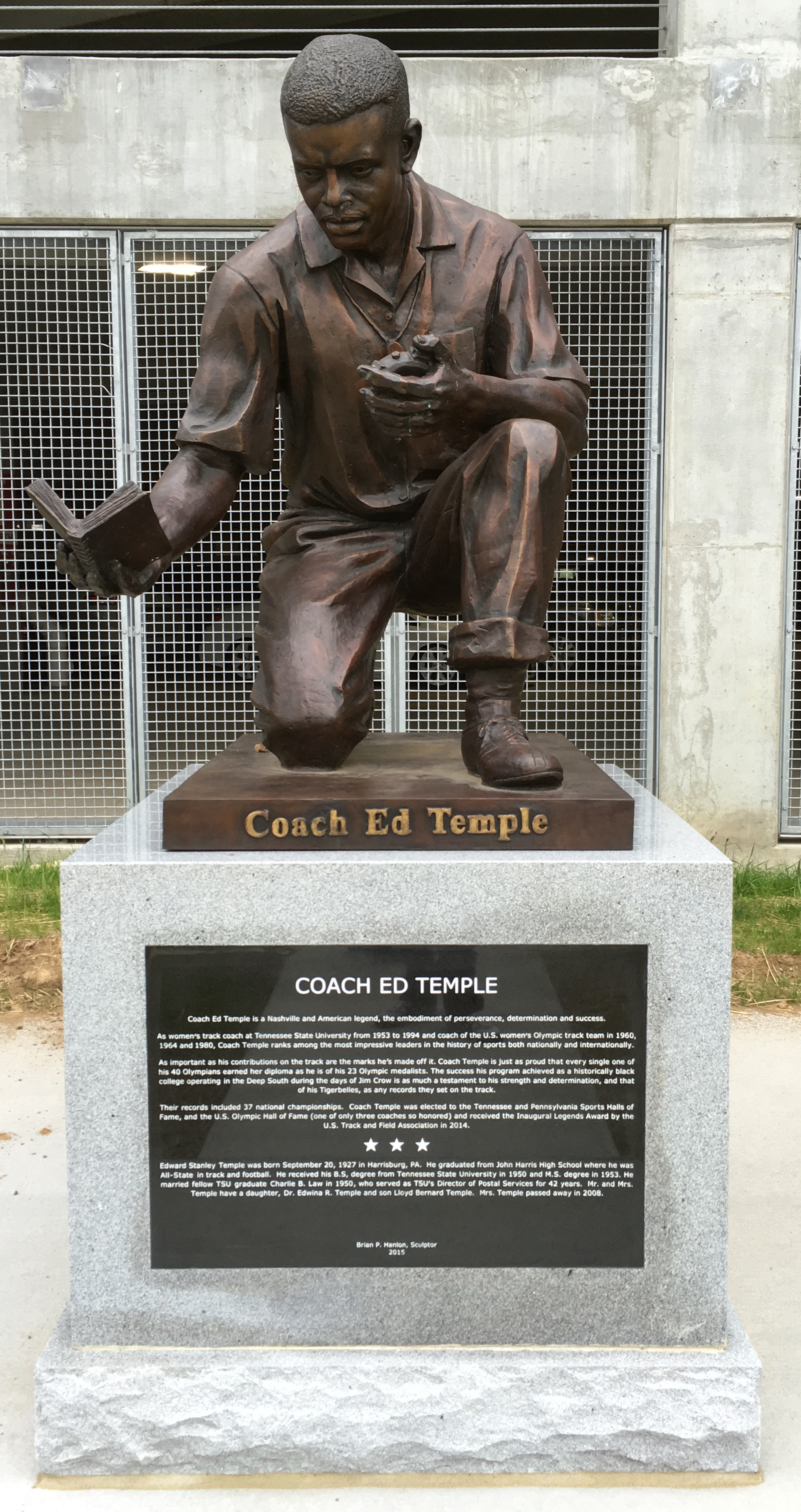 A statue of Ed Temple outside First Tennessee Park in Nashville, Tennessee